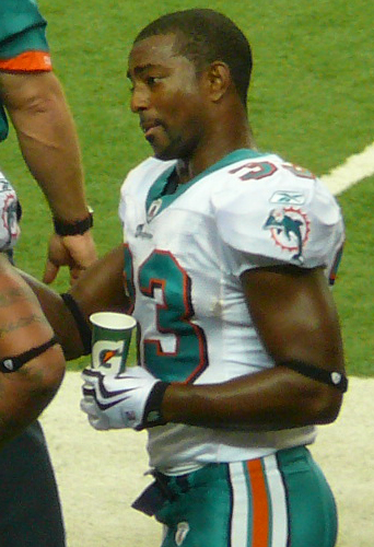 If used somewhere other than Wikipedia, Nelson, by name.